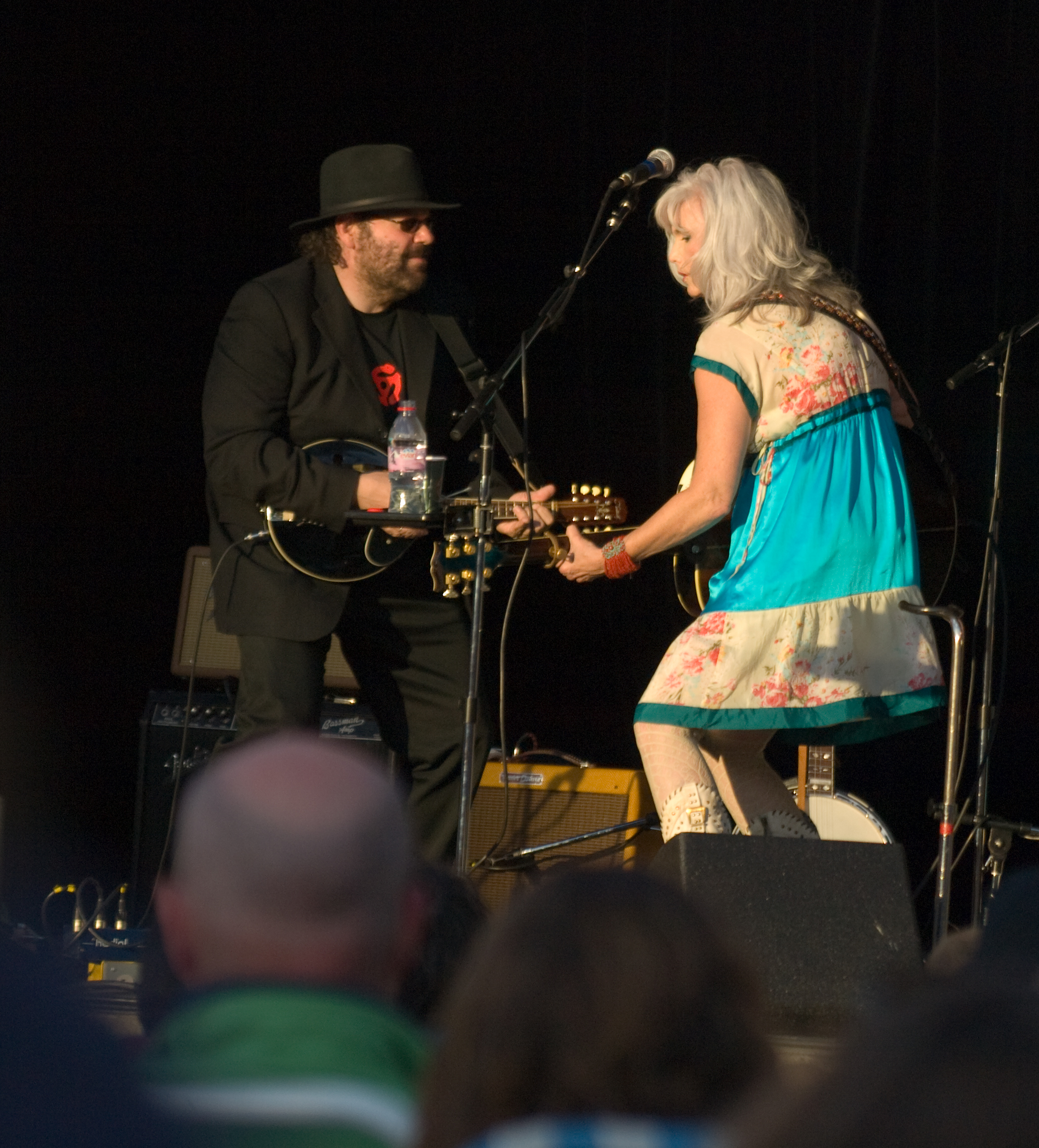 Emmylou Harris and Colin Linden performing at a 2008 Woodland Park ZooTunes concert, Seattle WA